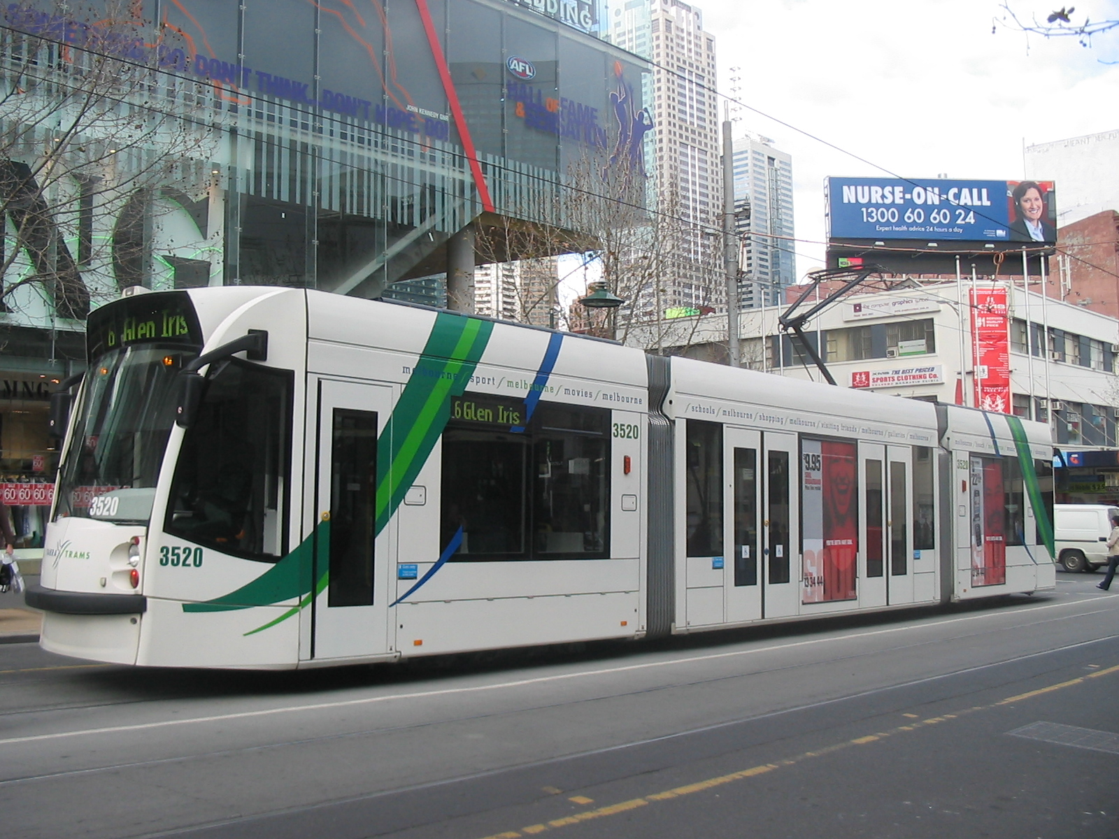 D1.3520 on route 6 at Swanston Street. Picture taken by myself.